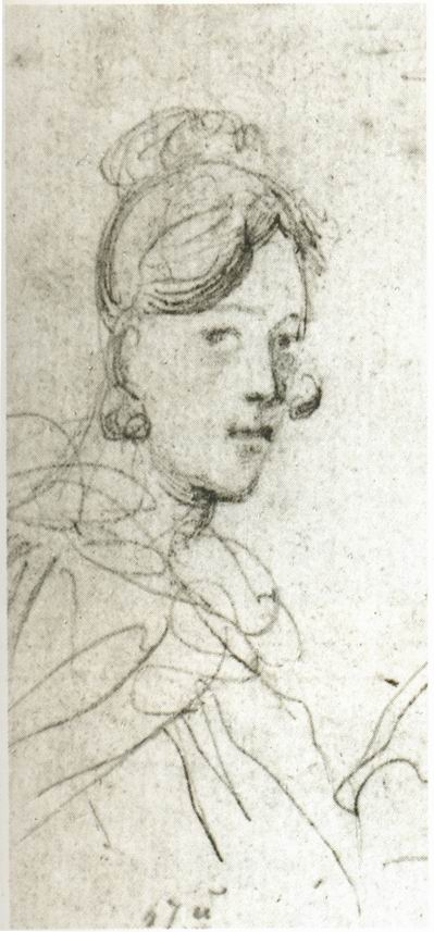 Lopukhina